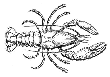 B/W line drawing of a crayfish